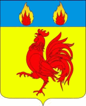 Coat of arms of Morevka (Yeisk, Krasnodar, Russia)